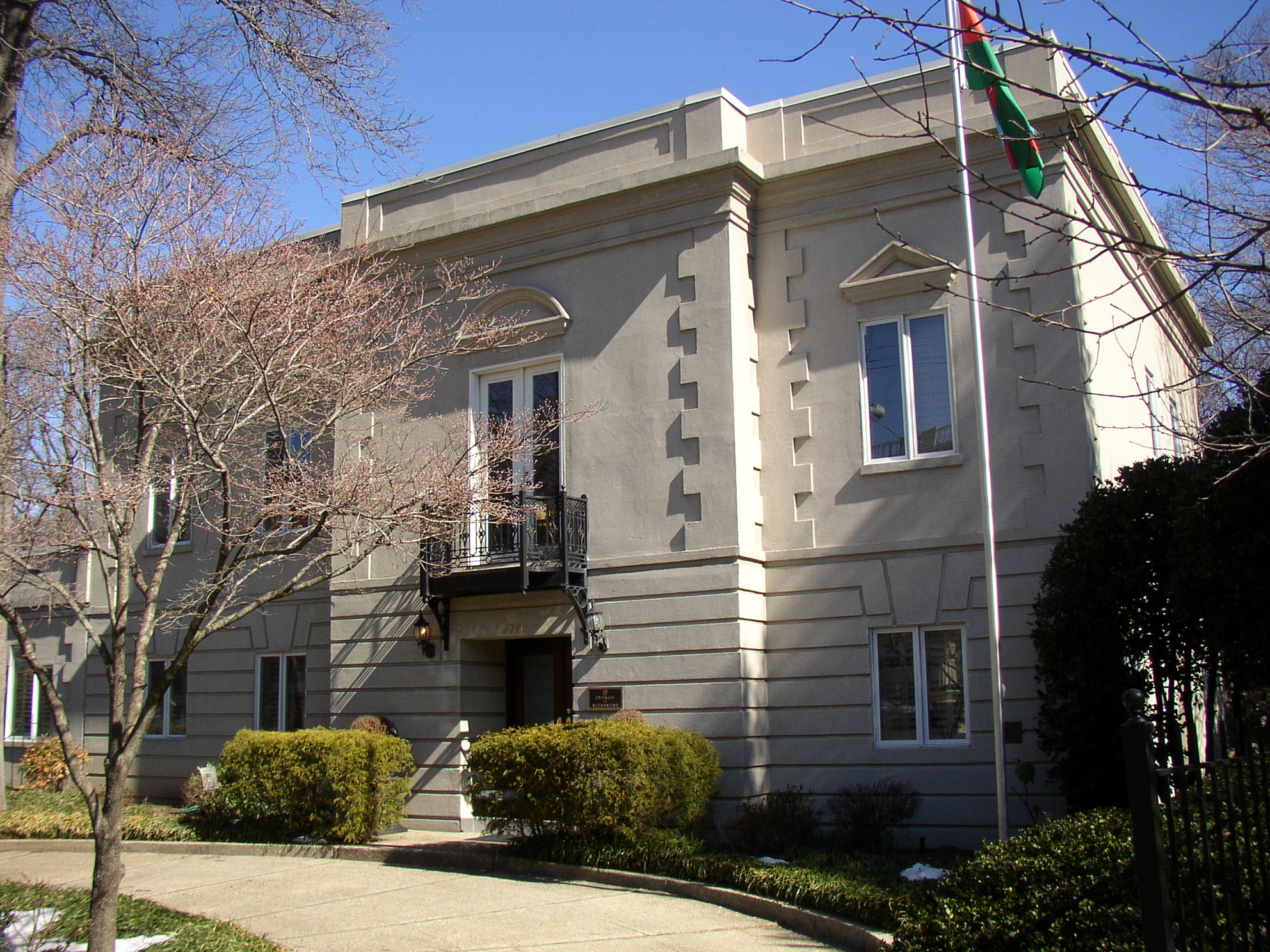 Embassy_of_Azerbaijan in Washington DC. Intended for inclusion in the article List of Washington, D.C. embassies. Photo taken by uploader on a cold February day in Washington, D.C. All rights released. Williamborg 00:19, 25 February 2007 (UTC)